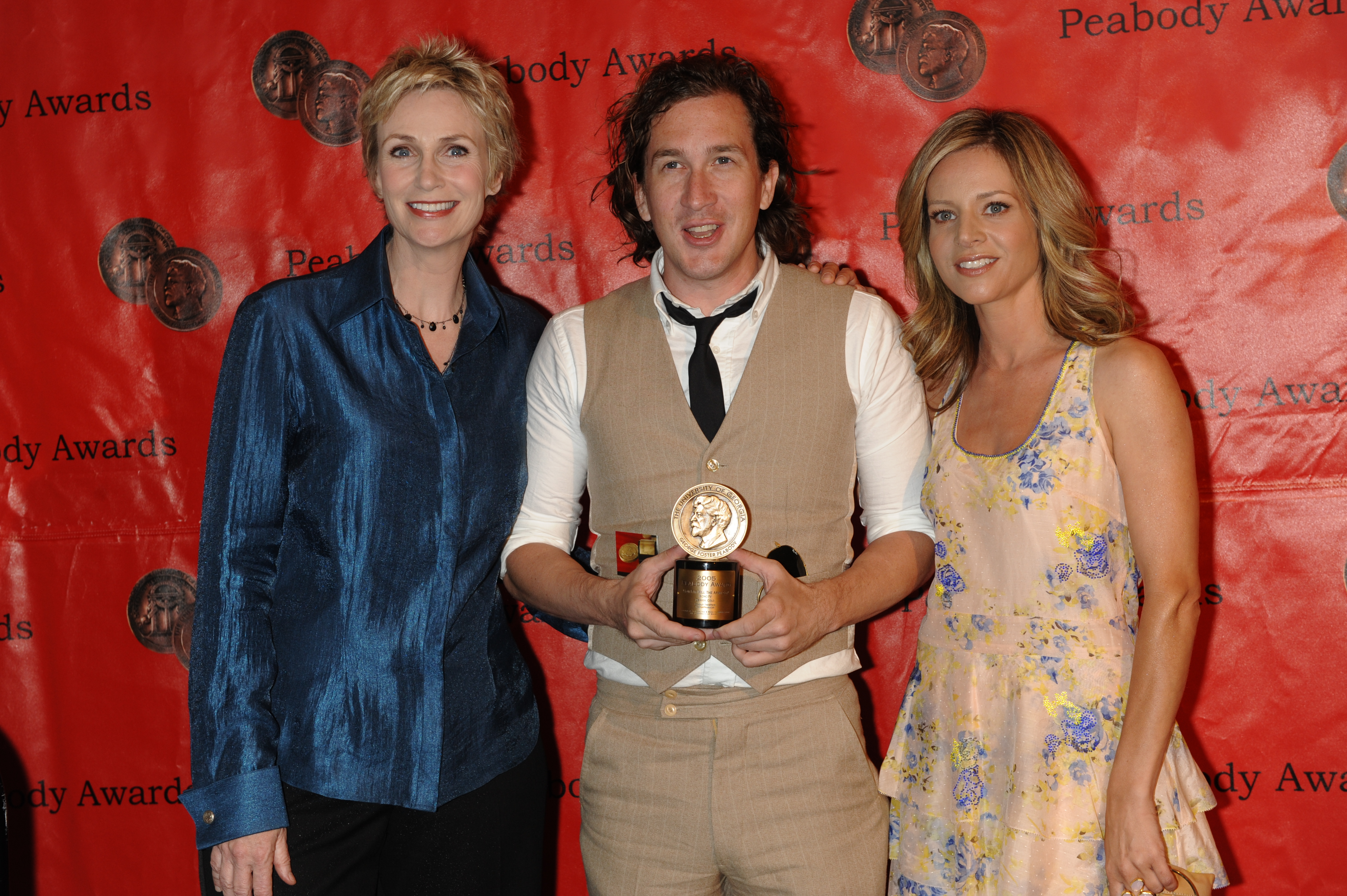 Jane Lynch, Ian Brennan and Jessalyn Gilsig for Glee 69th Annual Peabody Awards Luncheon Waldorf=Astoria Hotel New York, NY USA May 17, 2010